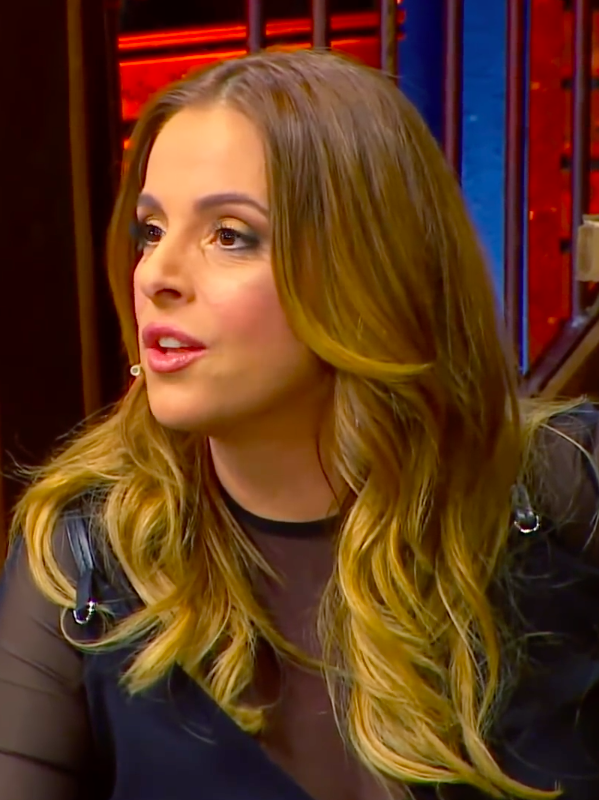 Turkish actress Doğa Rutkay during the 13th episode of Tolgshow hosted by Tolga Çevik.